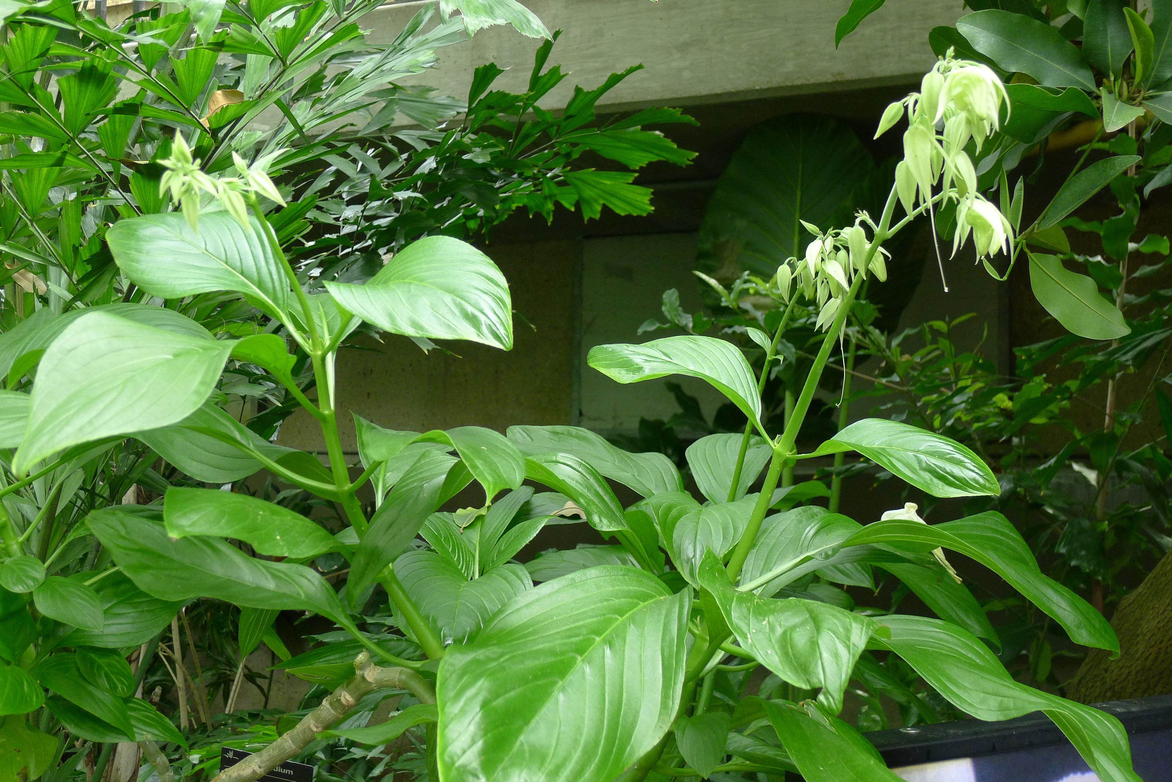 Louteridium panamensis in the Boltz Conservatory of Olbrich Botanical Gardens in Madison, Wisconsin